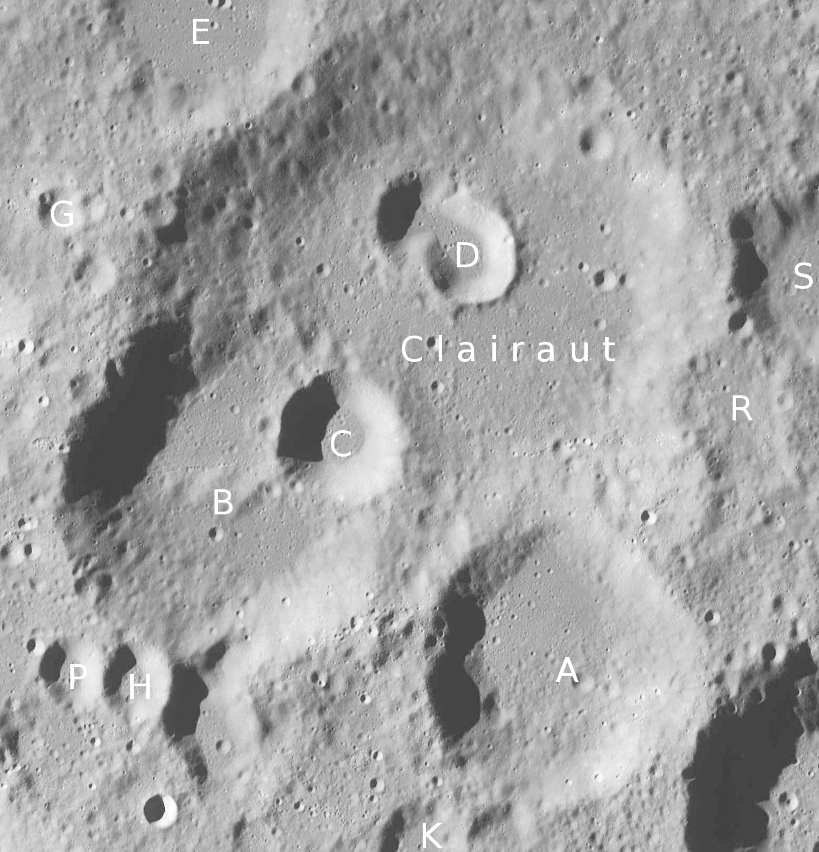 Crater Clairaut with satellite features (detail of LRO - WAC global moon mosaic; Mercator projection)